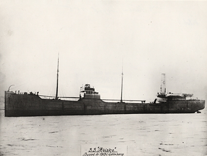 S/S Abisko built 1913